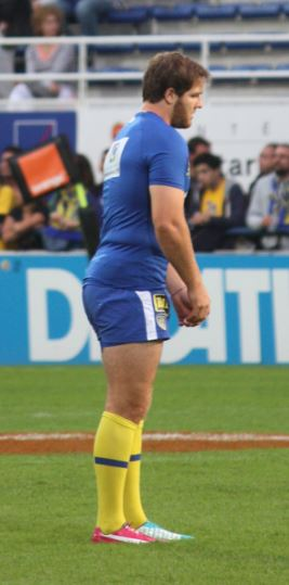 French rugby union player Camille Lopez kicking a penalty